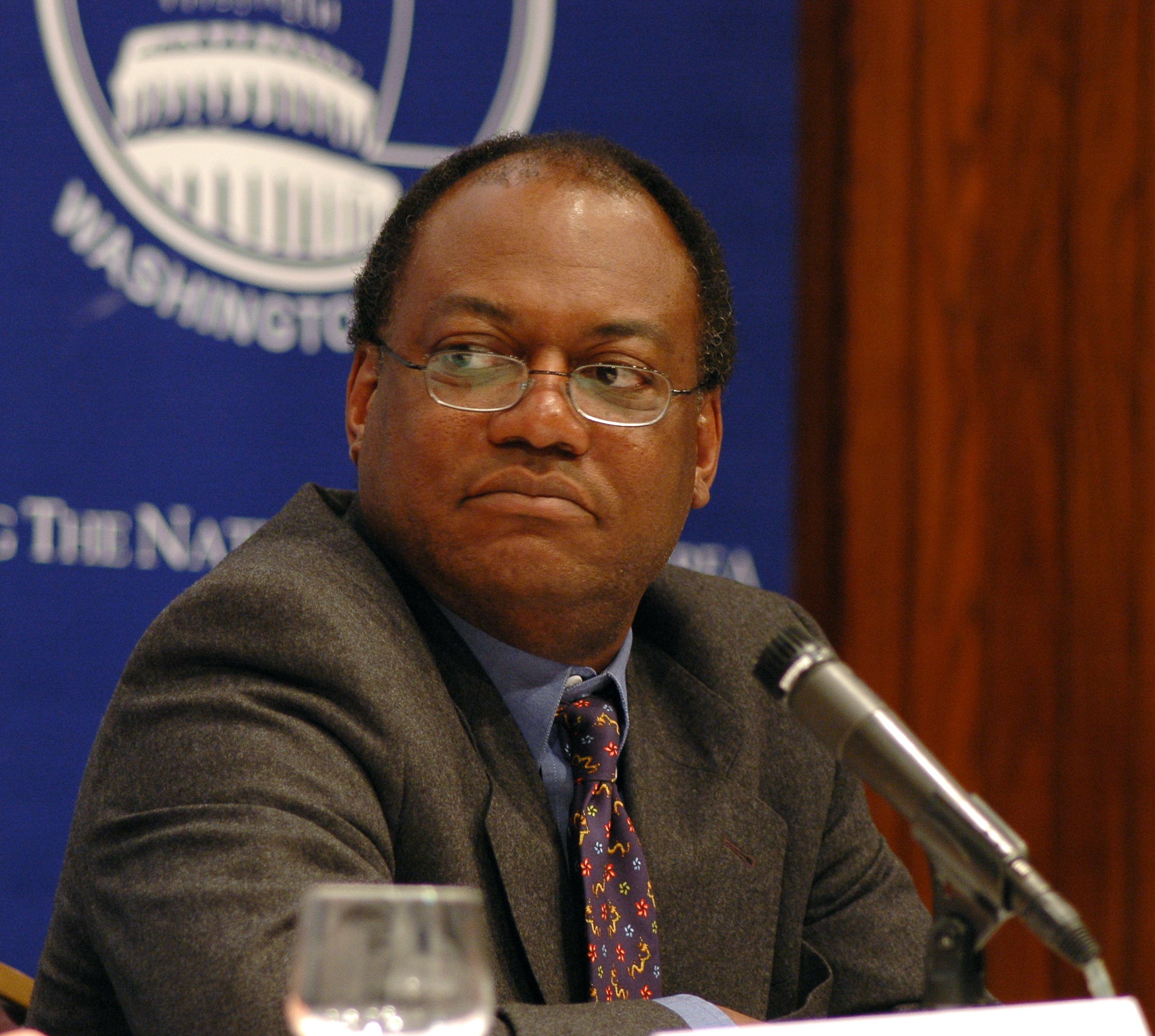 Keith Richburg at America and the World: A Washington Post Panel